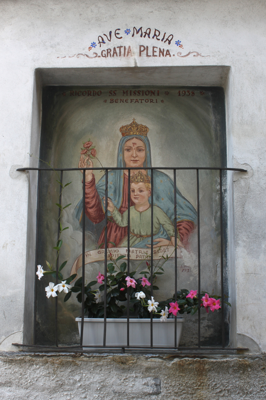 Chapel at Gordevio (Villa).